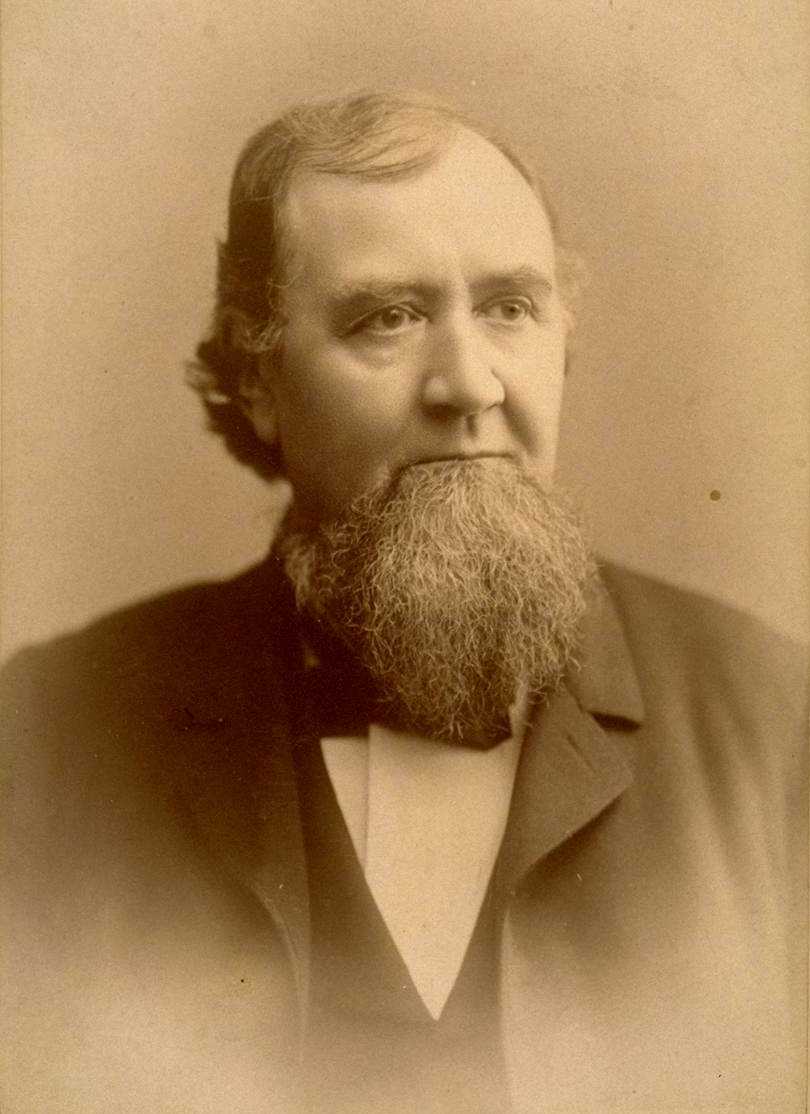 David S. Terry (1823–1889), California Supreme Court Justice